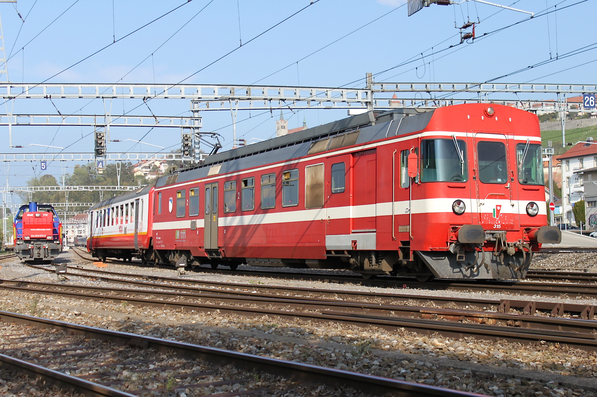 TRN RBDe 567 315 (hired to TPF) leaving Romont as R 22 to Bulle.